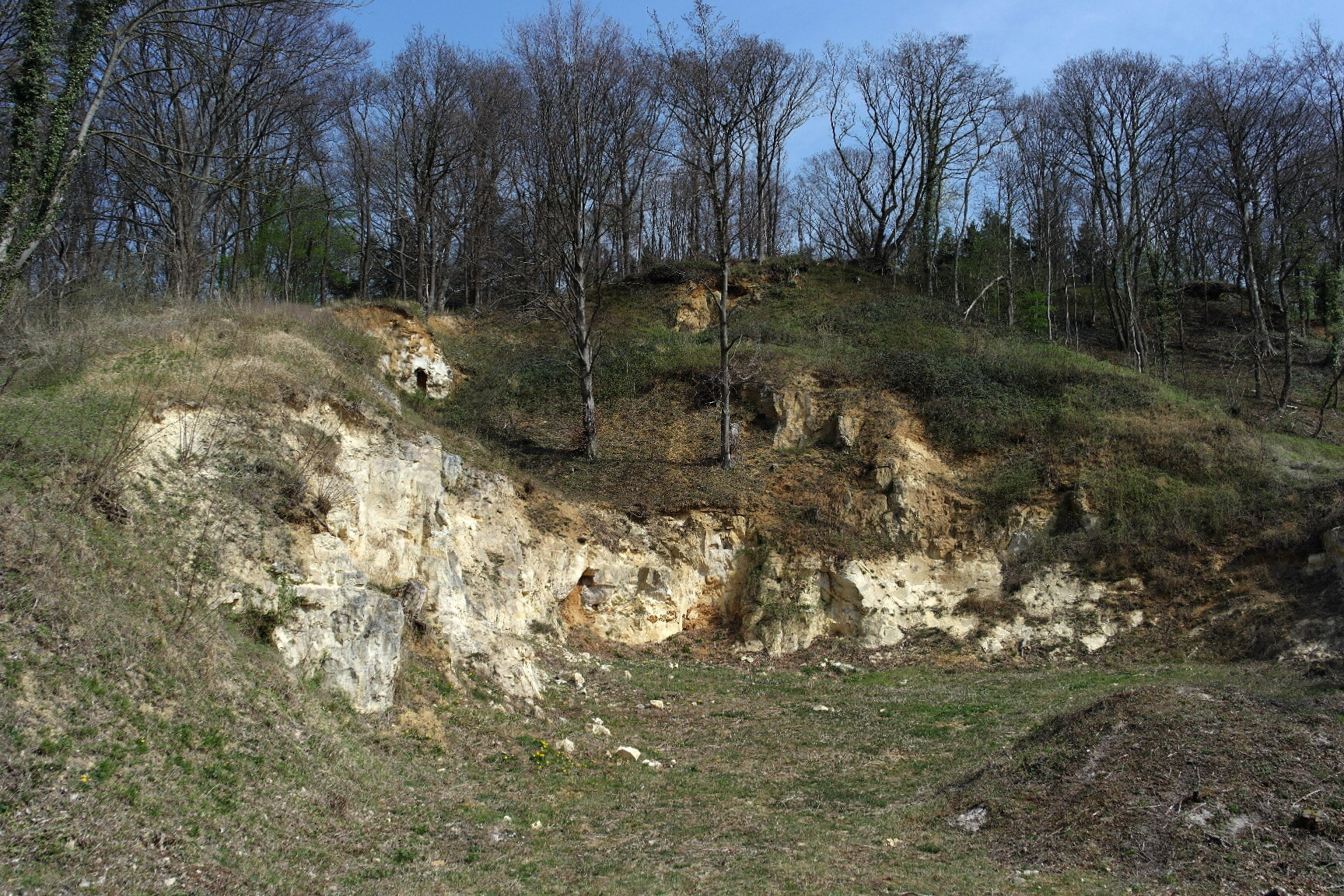 Sibbe, Limburg, the Netherlands. Site of former lime kilns in Biebosch near Sibbergrubbe. The Limburg lime kilns used local limestone, producing lime plaster and lime mortar at the beginning of the 20th century.